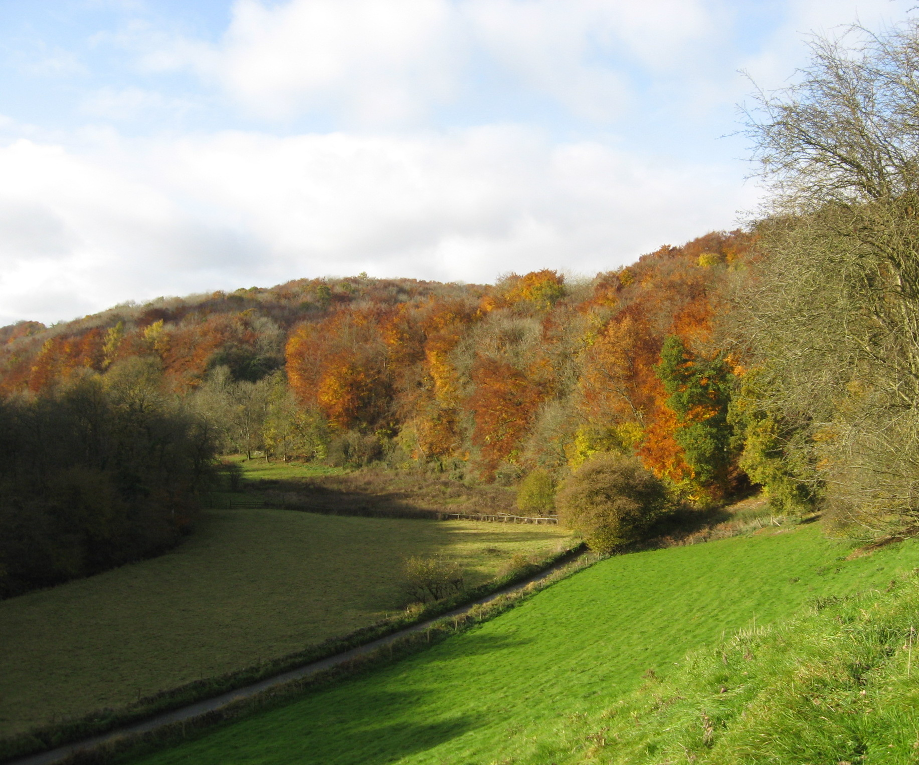 The Golden Valley, near Chalford, Gloucestershire, England in Autumn.